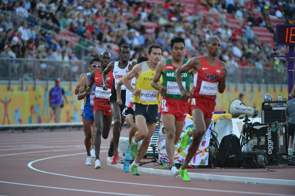 A scene from the 10,000-meter run at the 2015 Pan American Games in Toronto, where U.S. Army World Class Athlete Program runners Spc. Aaron Rono and Spc. Shadrack Kipchirchir finished second and fourth respectively. U.S. Army photo by Tim Hipps, IMCOM Public Affairs Source: United States Army Family and Morale, Welfare and Recreation directorate This image is a work of a U.S. Army soldier or employee, taken or made as part of that person's official duties. As a work of the U.S. federal government, the image is in the public domain.